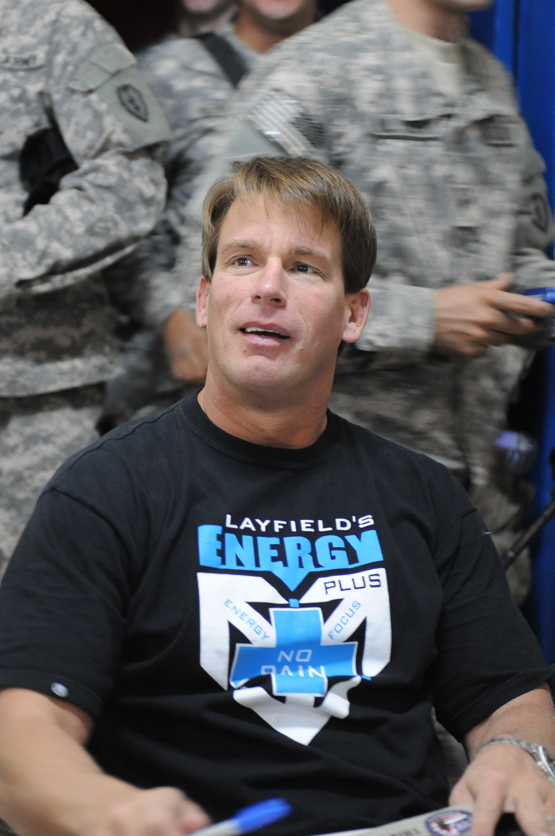 John Layfield from World Wrestling Entertainment (WWE) visits, signs autographs and talks with U.S. Soldiers at Forward Operating Base Brassfield-Mora, Iraq, Dec. 4, 2008. (U.S. Army photo by Sgt. Kani Ronningen/Released)